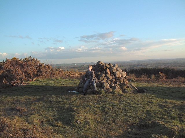 Healey Nab. Looking South